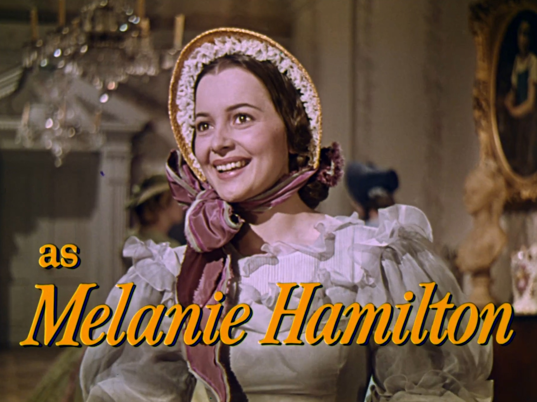 Cropped screenshot of Olivia de Havilland from the trailer for the film Gone with the Wind